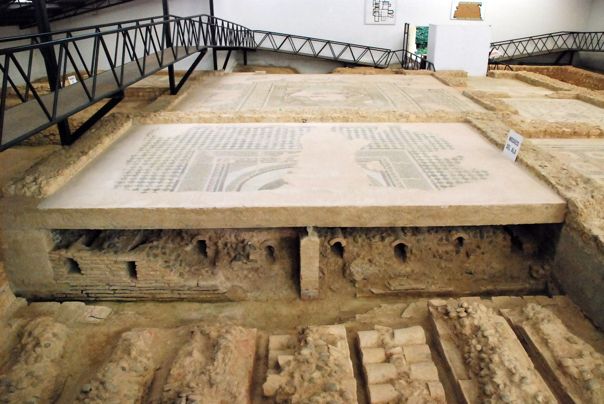 Room 12 with Ancient roman mosaic of the wing at Roman Villae of Tejada in Quintanilla de la Cueza (Palencia, Castile and León).